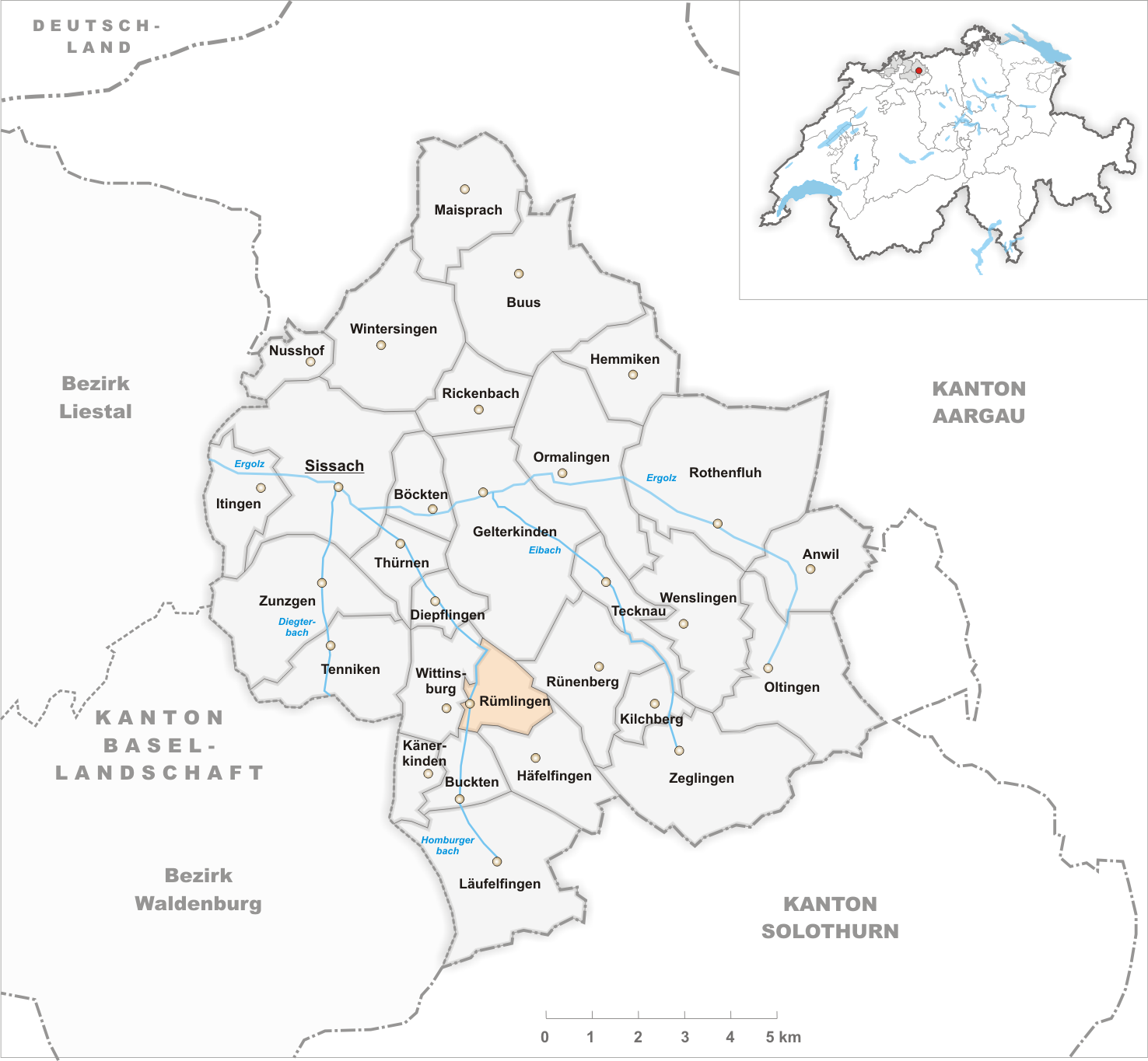 Municipality Rümlingen